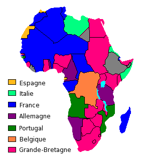 French translation of Image:Africa1913.png: work of User:Ekem who made it from Image:Colafrica.jpg:work of User:J.J.